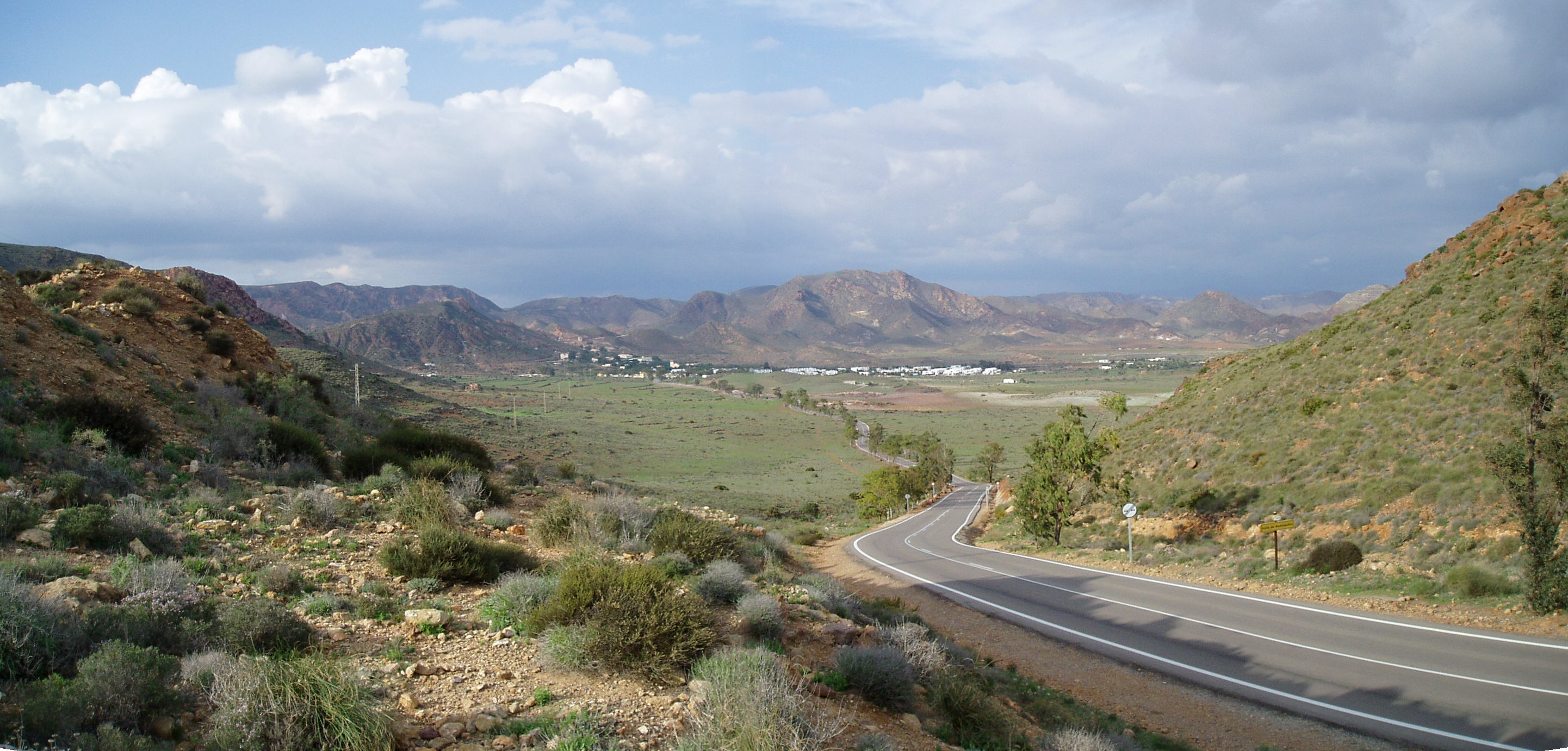 Panoramic view of Valle de Rodalquilar in Andalusia, Spain. View northwards from the mountain pass close to Mirador de la Amatista.